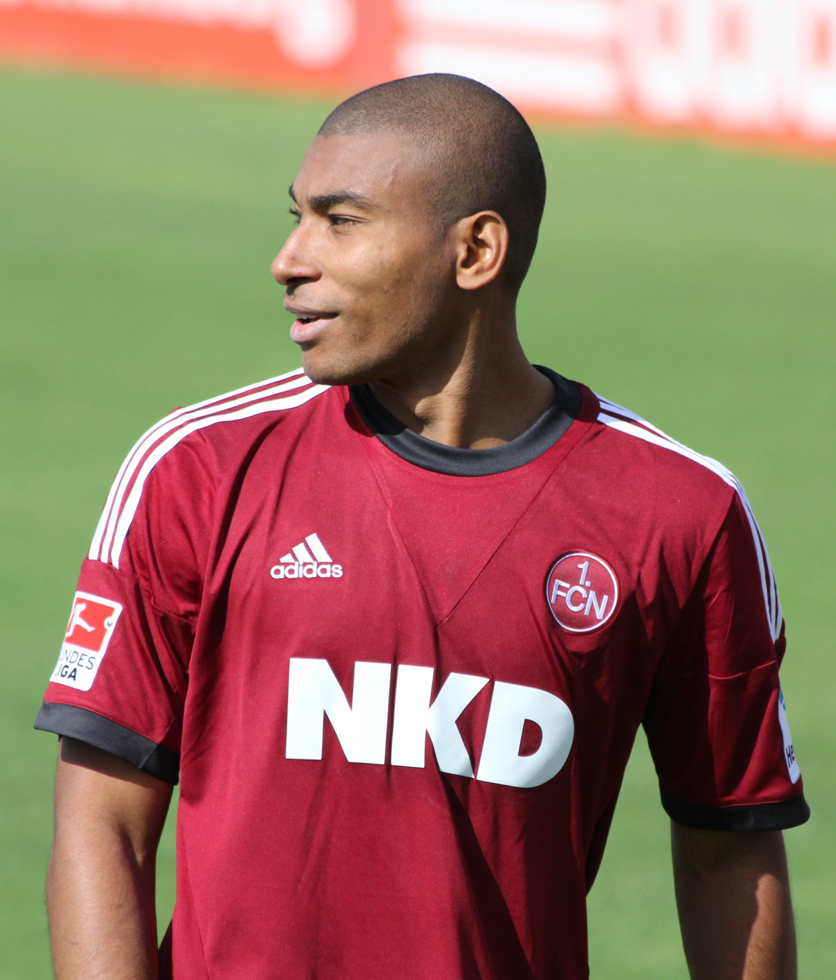 Marcos António, football player for German side 1. FC Nürnberg, 2012/13 season, first training session